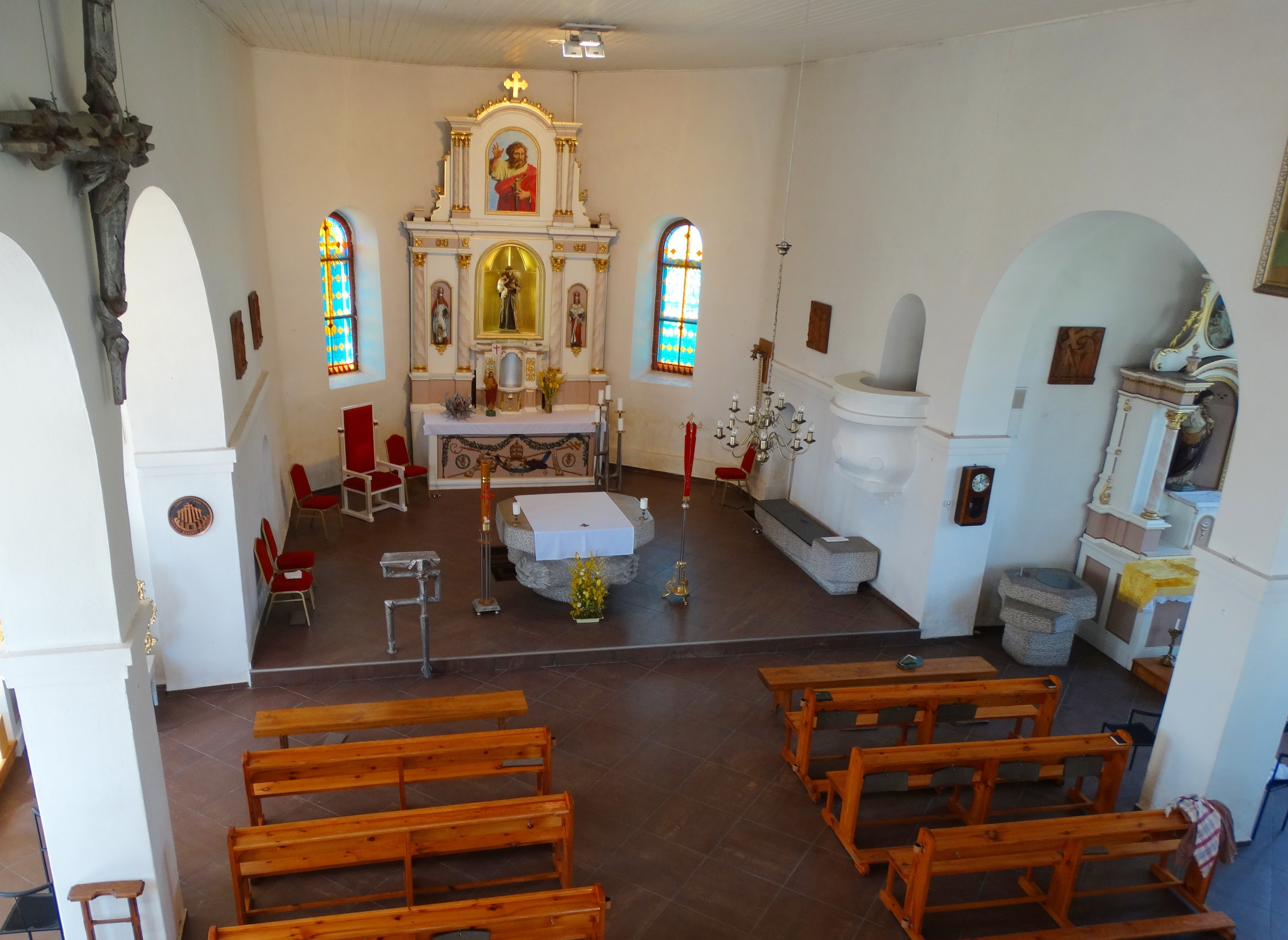 Catholic church, Pamūšis (Klovainiai), Pakruojis district, Lithuania